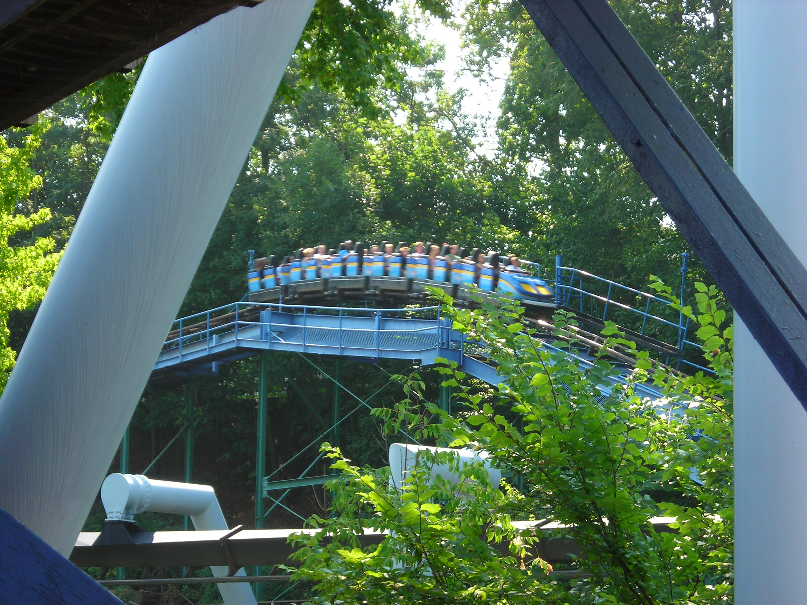 A sooperdooperLooper train passing through its second brake.